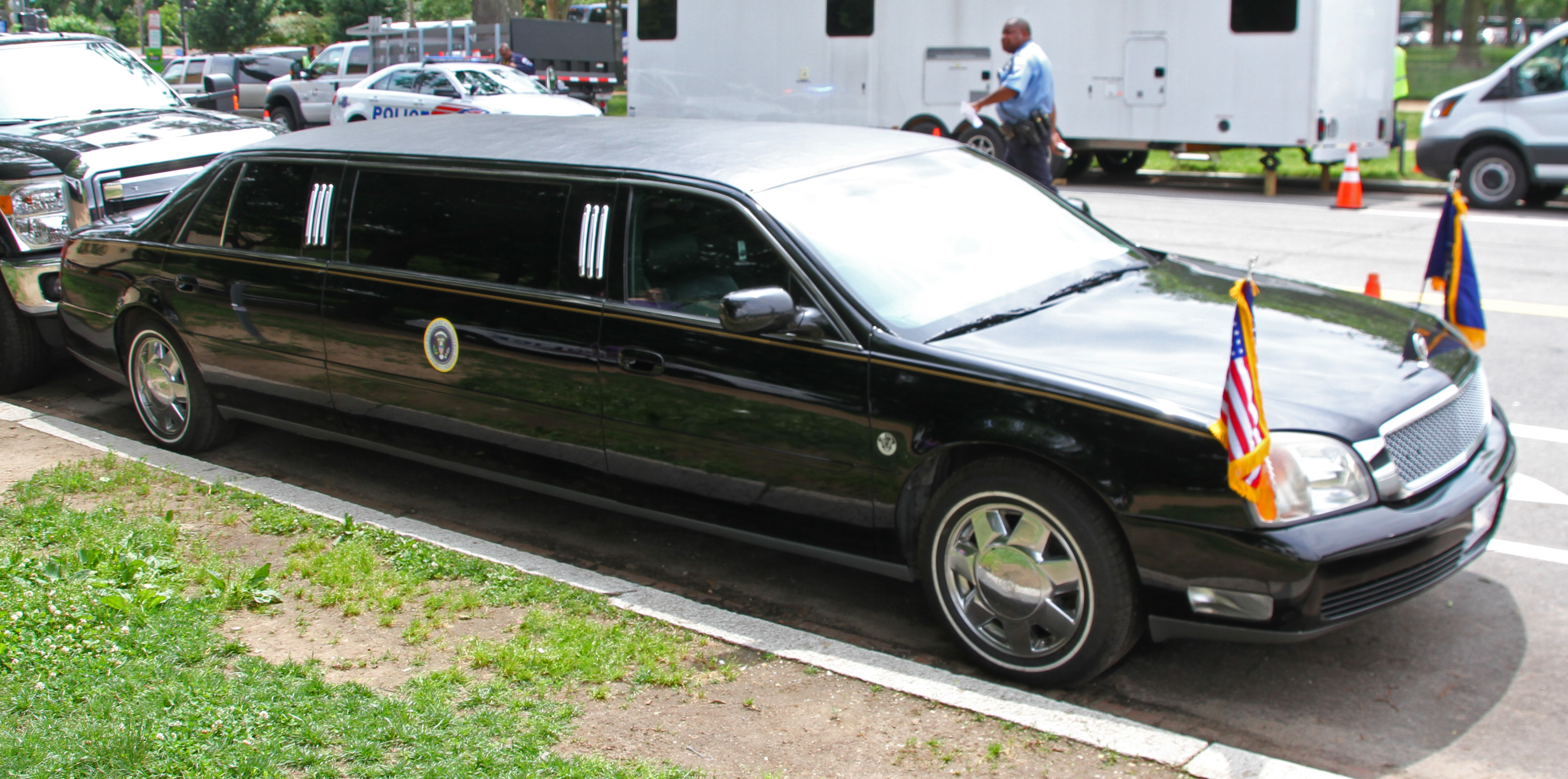 Walking back from the Capitol building we were passed by a convoy of Black cars, including one with the Presidential Seal. To our surprise the convoy pulled up a few yards from us and numerous people including policemen, "men in black" and several camera men got out of the SUVs. We wonder whether we were about to me President Obama. It turned out to be a film crew recording an episode of the TV series 'House of Cards'.